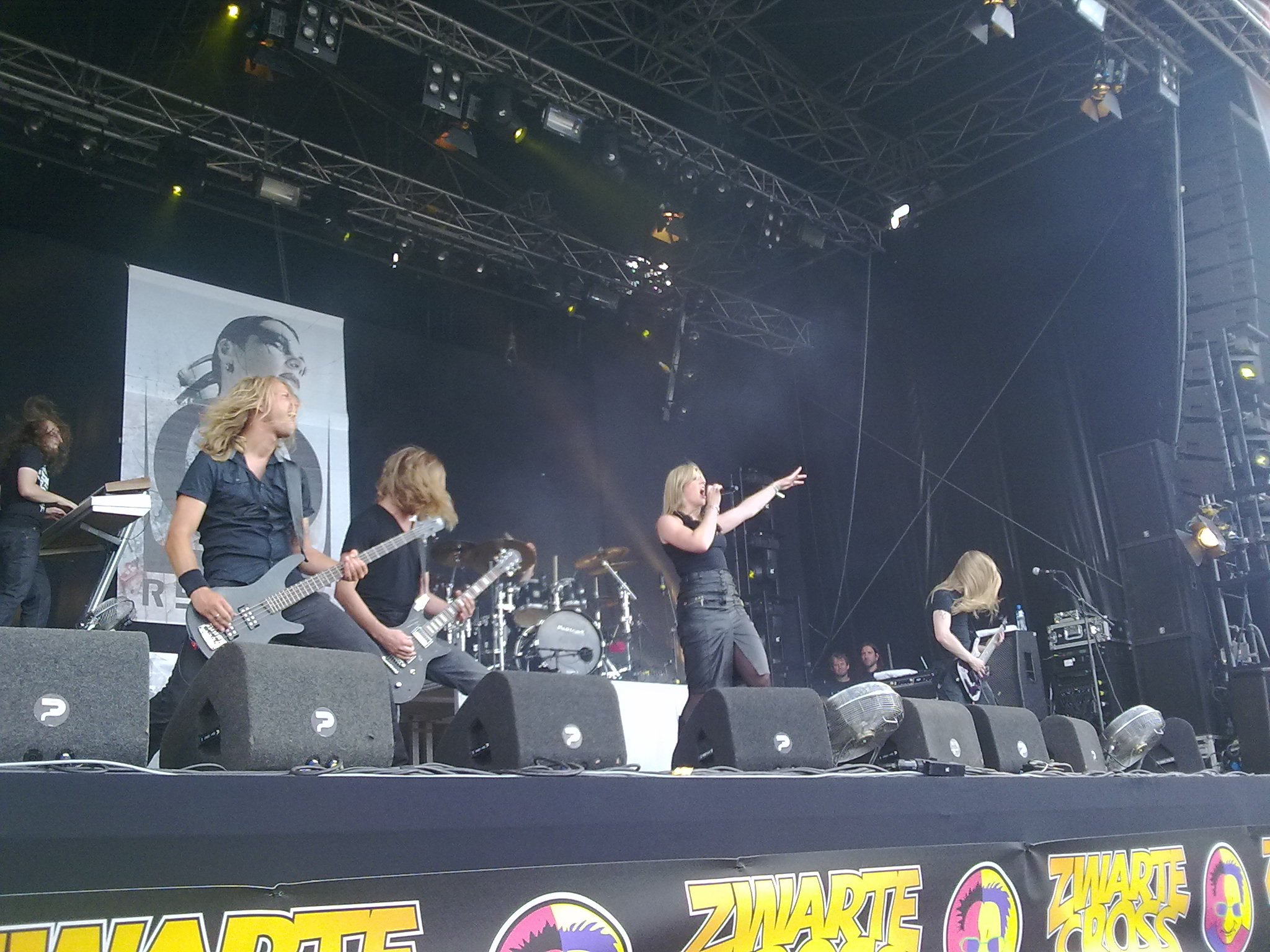 Revamp performing at the Zwarte Cross festival in Lichtenvoorde (The Netherlands).